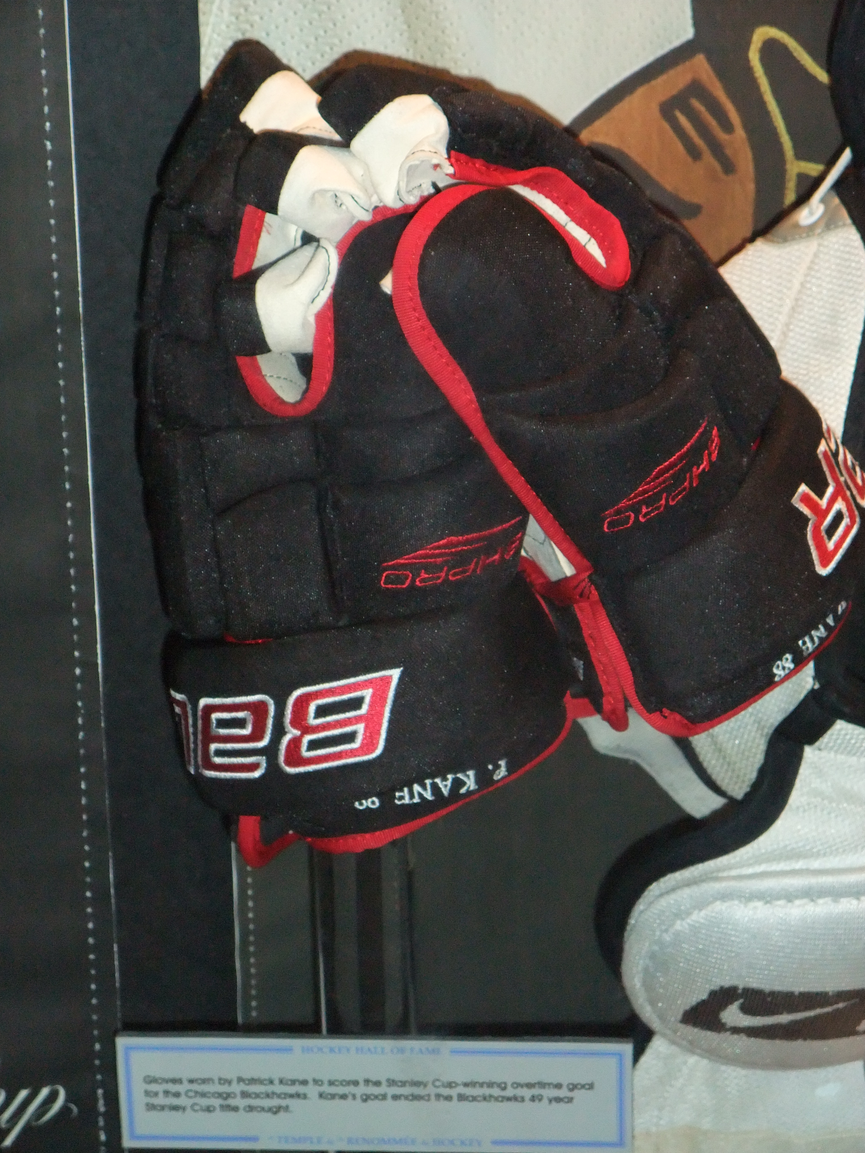 Was wearing these when he scored the winning shot in the deciding game of the stanley cup 2010.